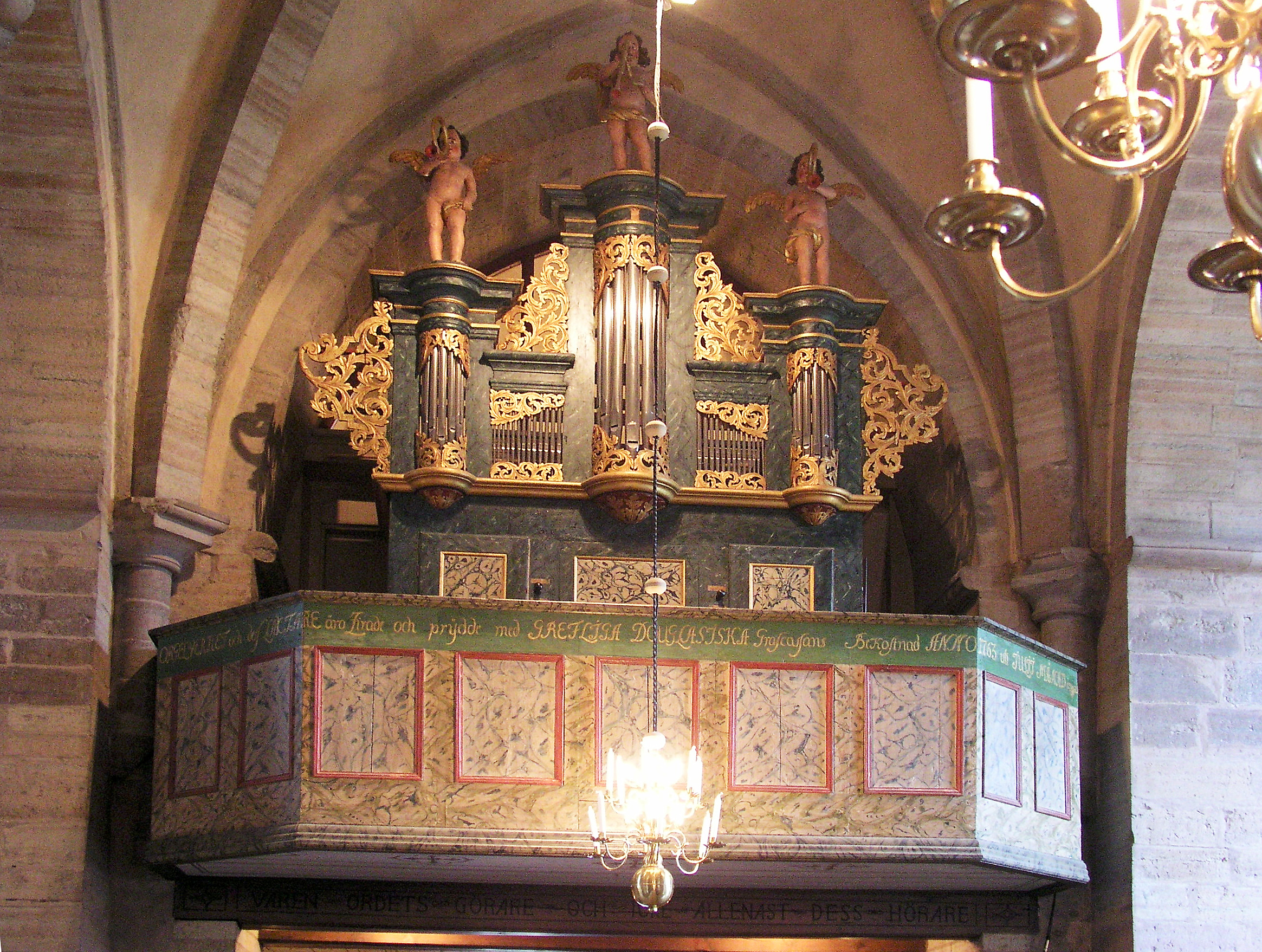 Vreta klosters kyrka. Church organ. The photo was taken by Håkan Svensson (Xauxa) the 28th September 2003.